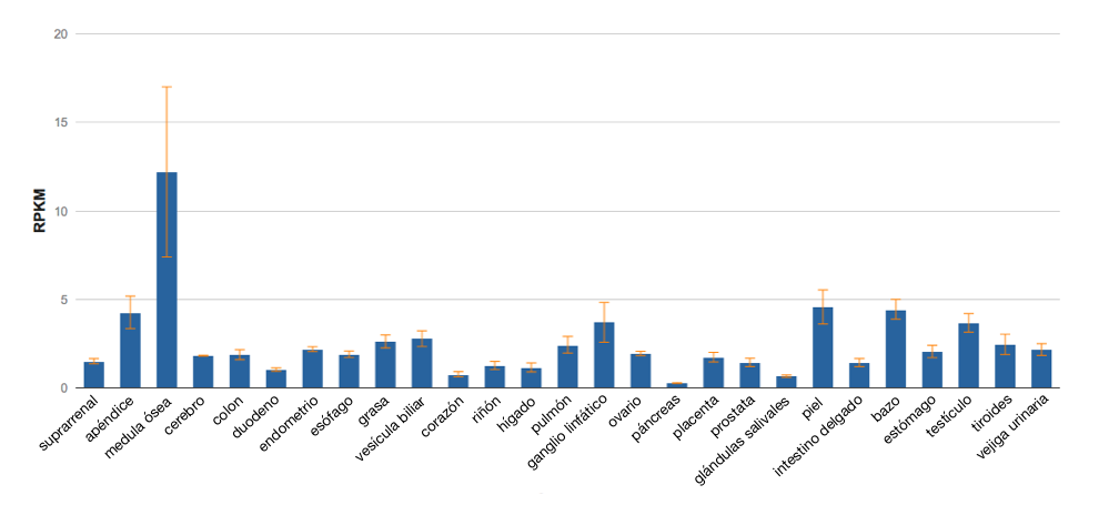 Expression in tissues of the LYST gene.